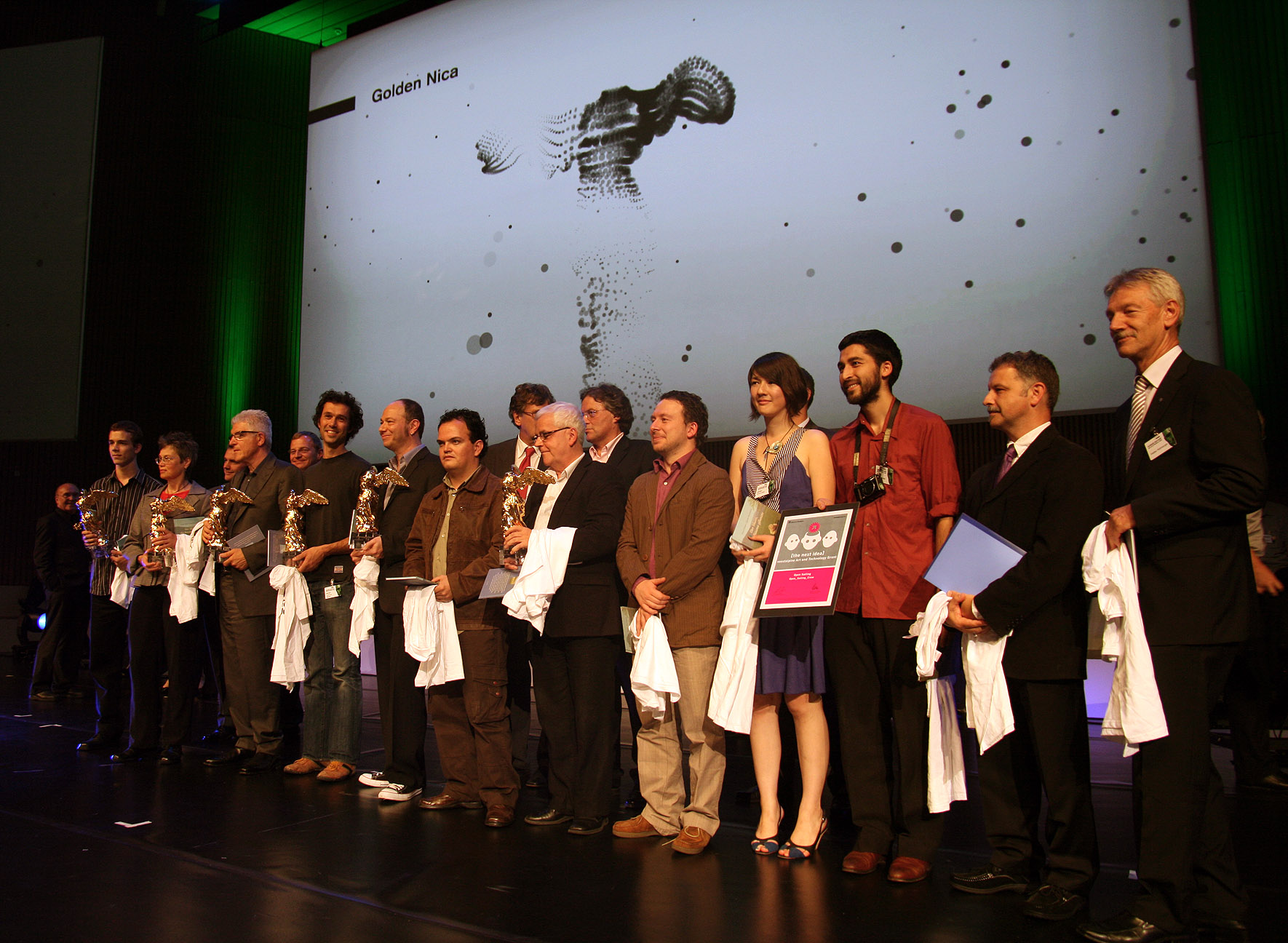 The winners of the Prix Ars Electronica at the Brucknerhaus in Linz during the Ars Electronica Festival 2009.